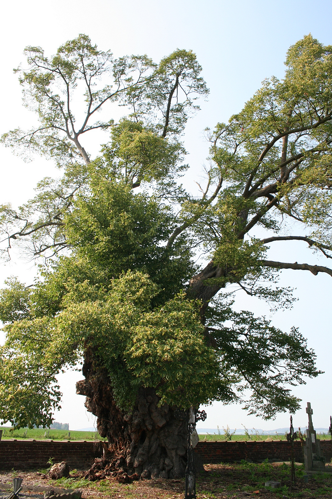 Small-Leaved Lime or Small-Leaved Linden.